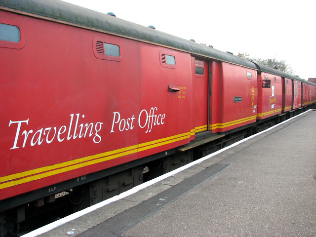 Wansford station - Royal Mail Travelling Post Office (1960s)